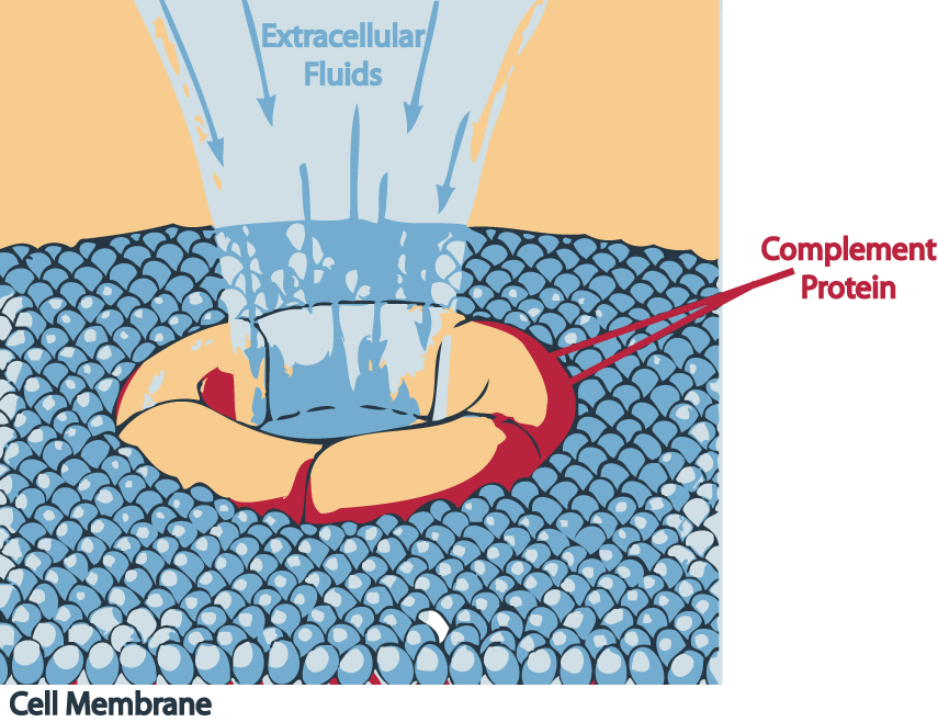 A complement protein attacking an invader. Created using Adobe Illustrator. Based on Purves et al., Life: The Science of Biology, 6th Edition.